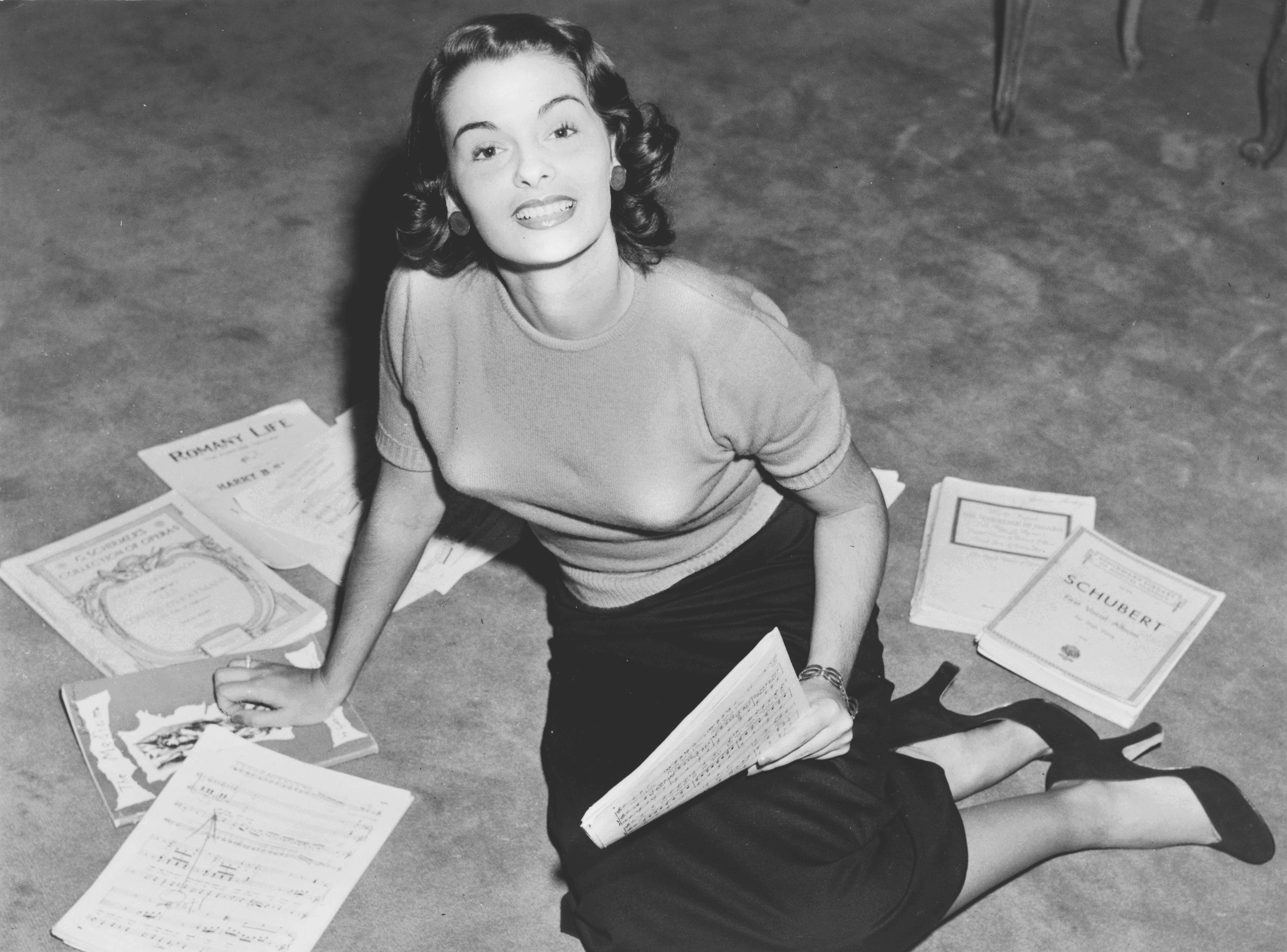 Miss America pageant contestant Yolande Betbeze, full-length portrait, seated on floor, facing front, surrounded by sheet music